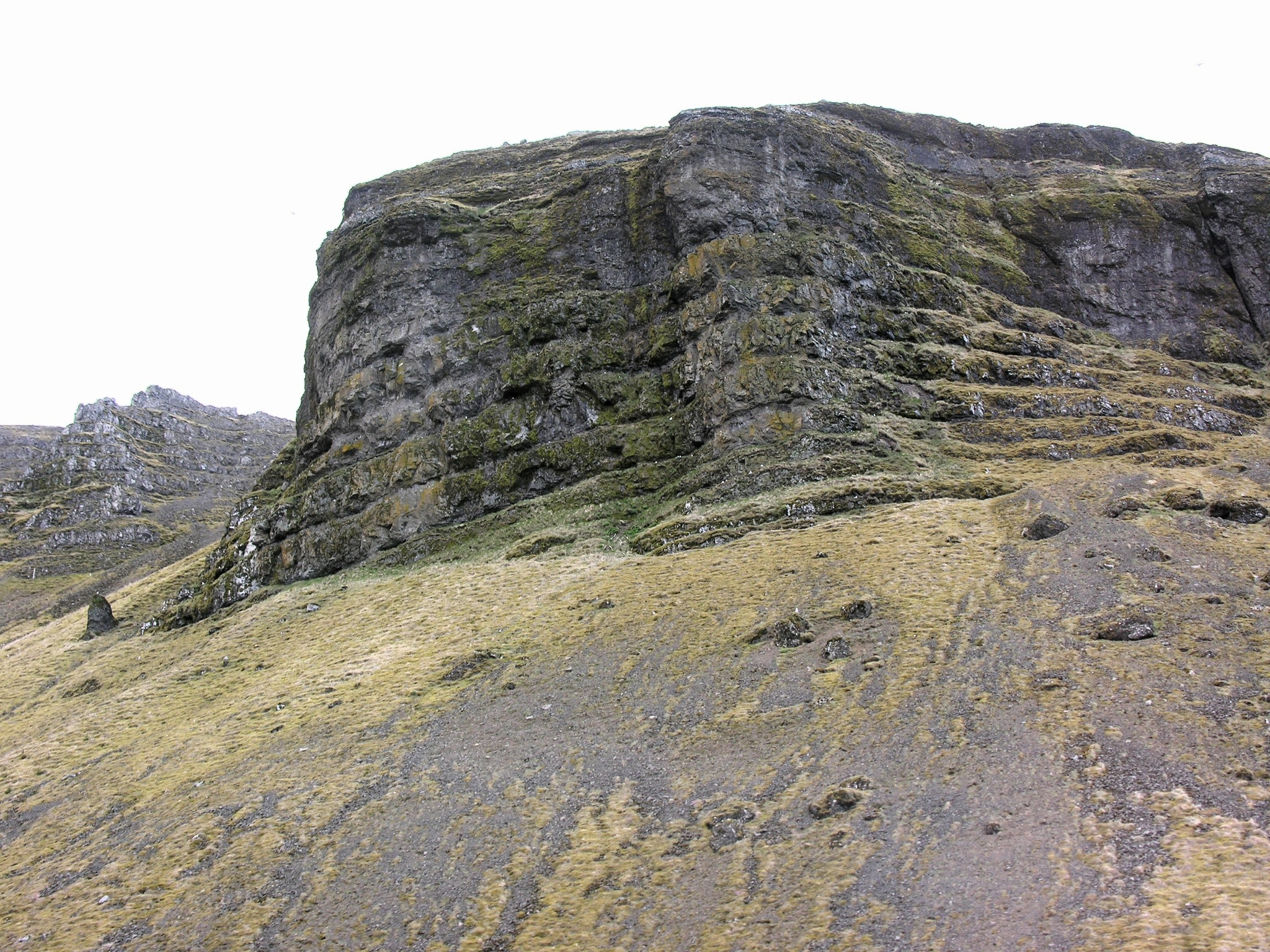 Iceland , views along road Road 1 in Iceland (Hringvegur). Picture is geocoded manually; if someone can contribute to the accuracy, please do so.